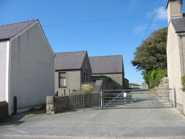 Ysgol y Ffridd, Gwalchmai Primary School